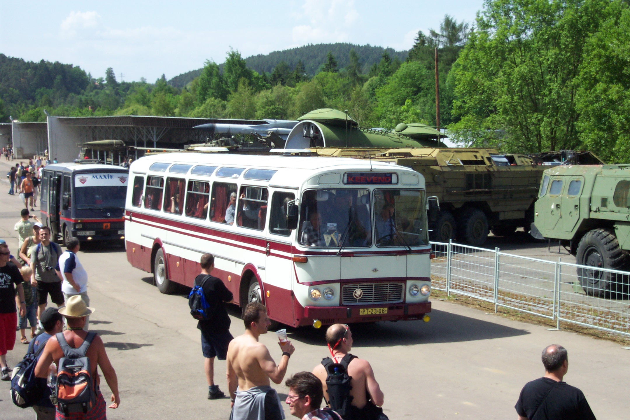 Bus 1979 Karosa ŠD 11 in VTM Lešany museum